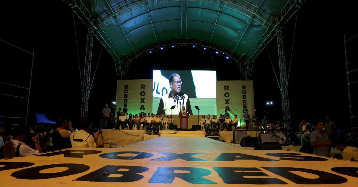 President Benigno Aquino III making a speech at the Miting de Avance for the Koalisyong Daang Matuwid at the Quezon Memorial Circle in Quezon City in support for the Mar Roxas-Leni Robredo tandem of the 2016 Philippine presidential elections.